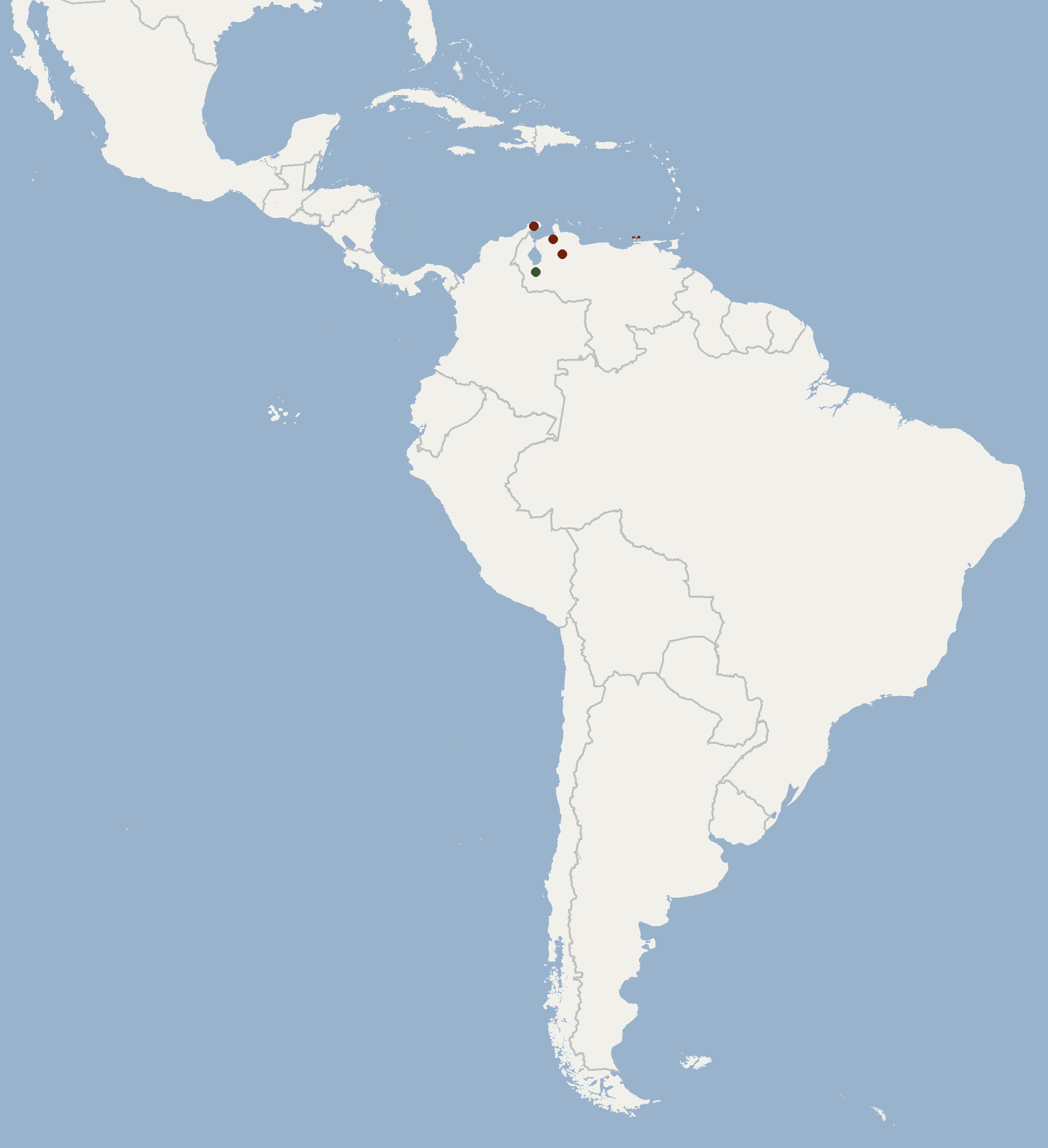 Geographical distribution of Rhogeessa minutilla according to Gardner, 2008